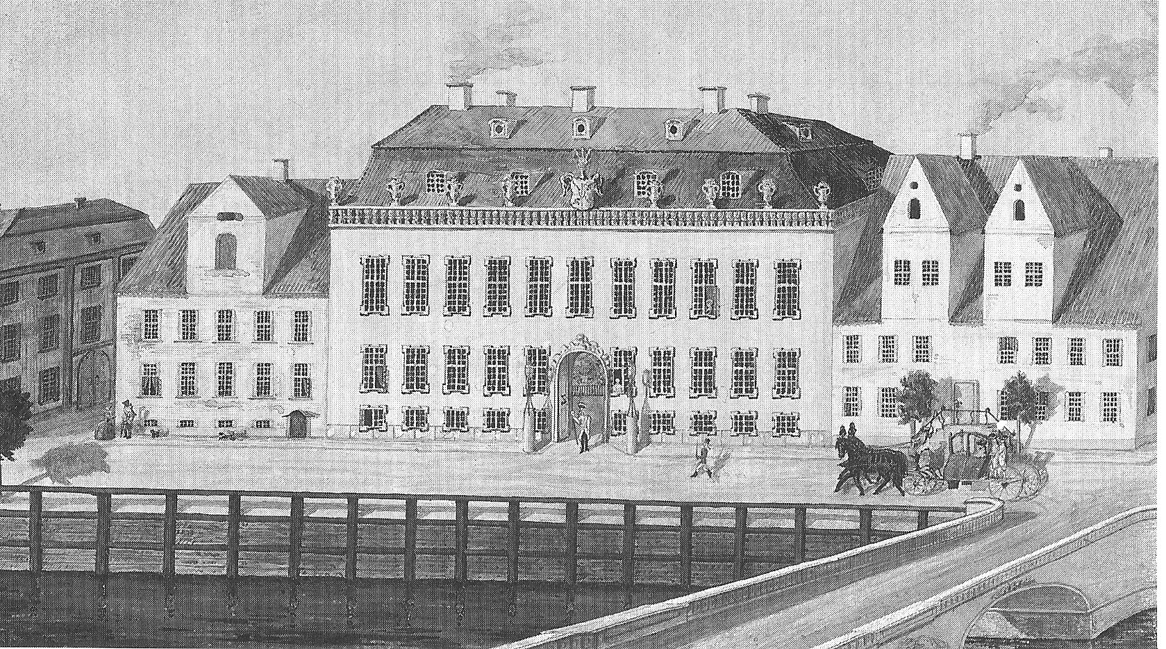 The Plessen Mansion where Frederiksholms Kanal 16-20 is today in Copenhagen, Denmark.